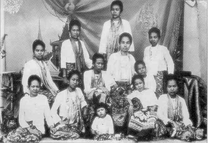 Princess Yhuangkaew along with the concubines